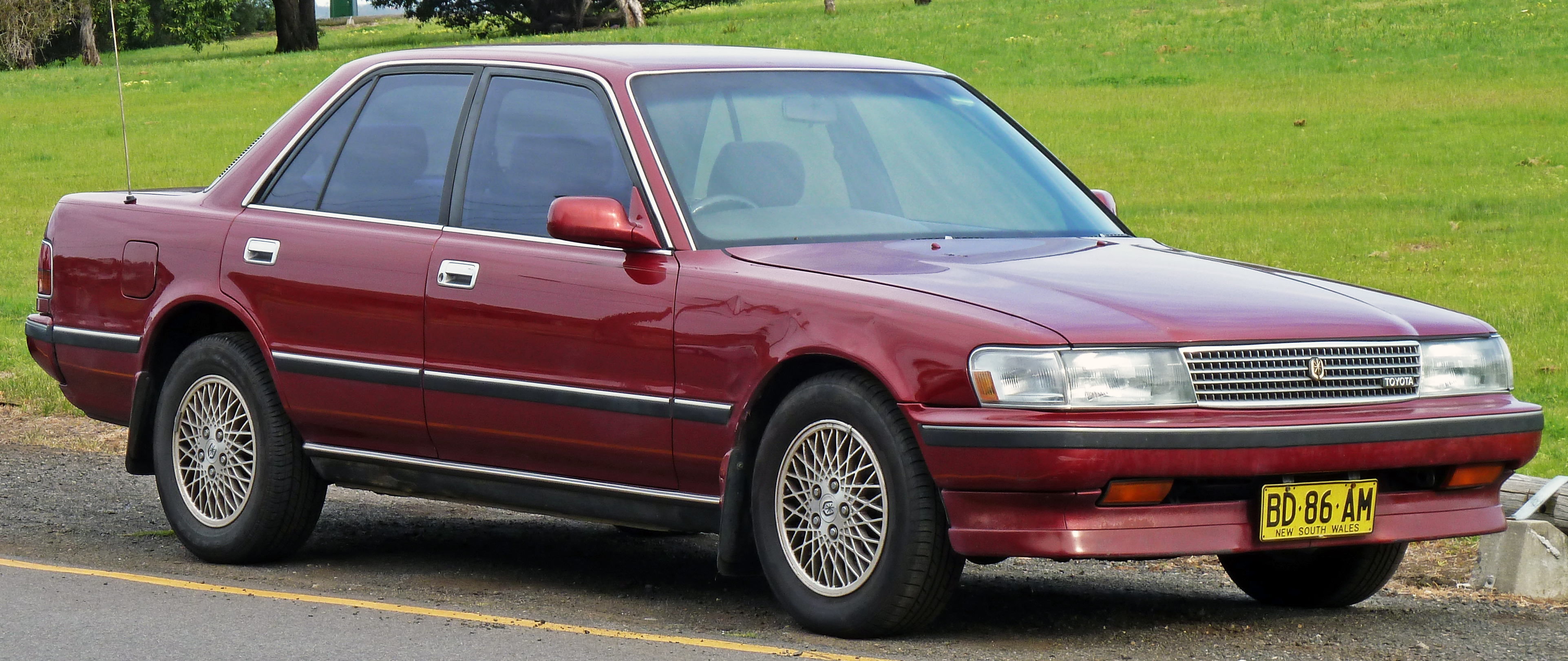 1990 Toyota Cressida (MX83R) GLX sedan. This is the pre-facelift 1988–1990 model, but fitted with alloy wheels from the updated 1990–1993 GLX. Photographed in Sans Souci, New South Wales, Australia.